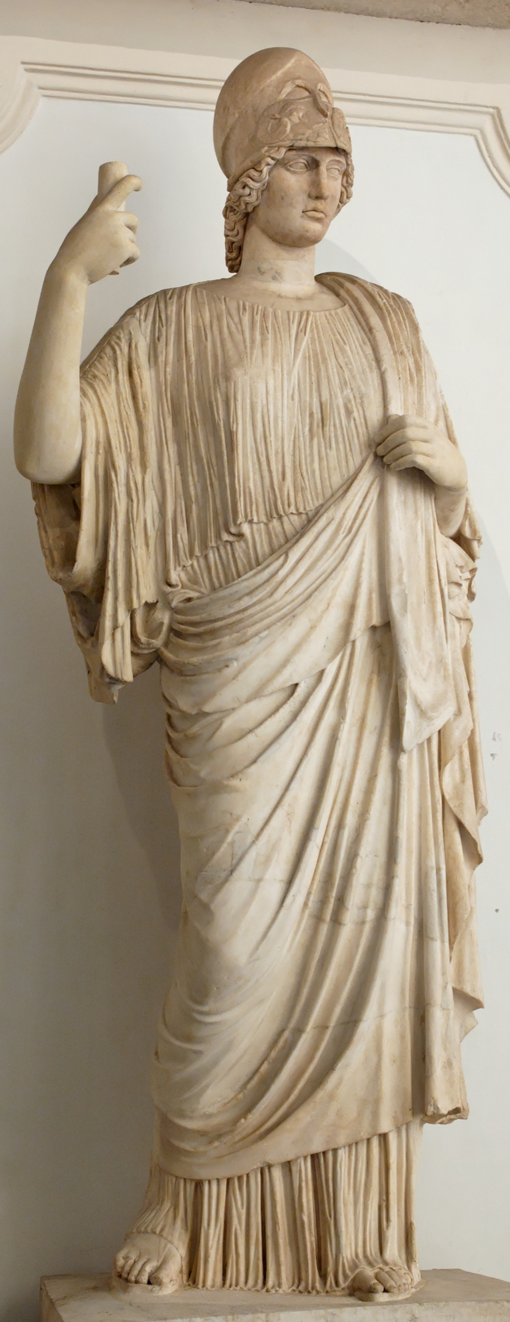 Athena of the Giustiniani type. Marble, Roman copy after a Greek original of the late 5th century BCE.